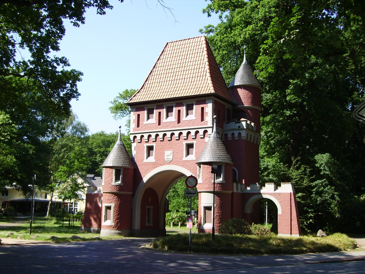 The Park Gate in the Park of Speckenbüttel in Bremerhaven